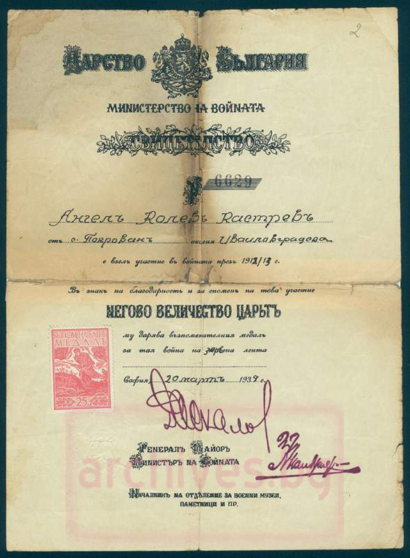 Angel Kolev's Diploma